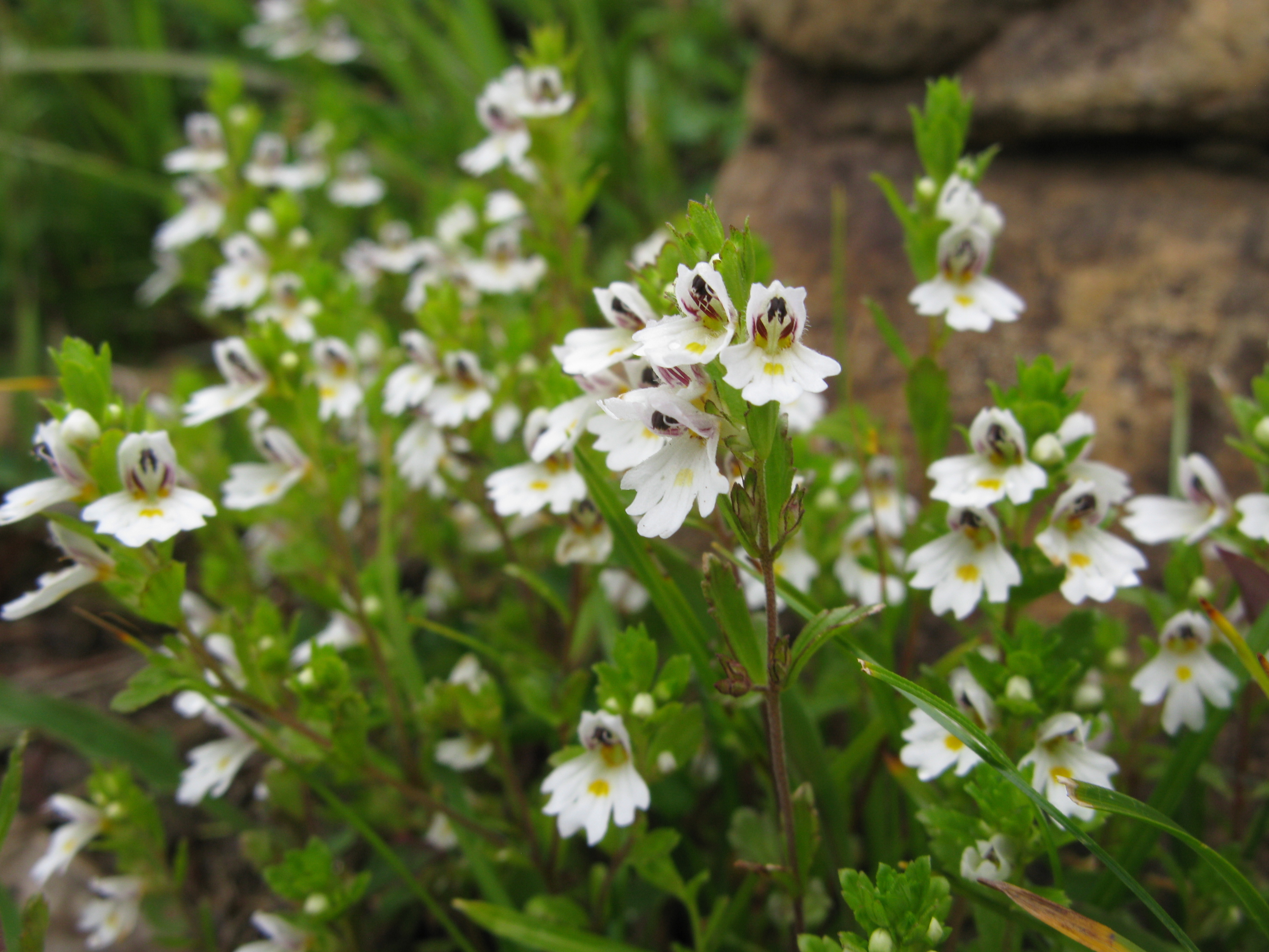 Euphrasia insignis subsp. insignis var. japonica, Mount Shibutsu, Gunma pref., Japan